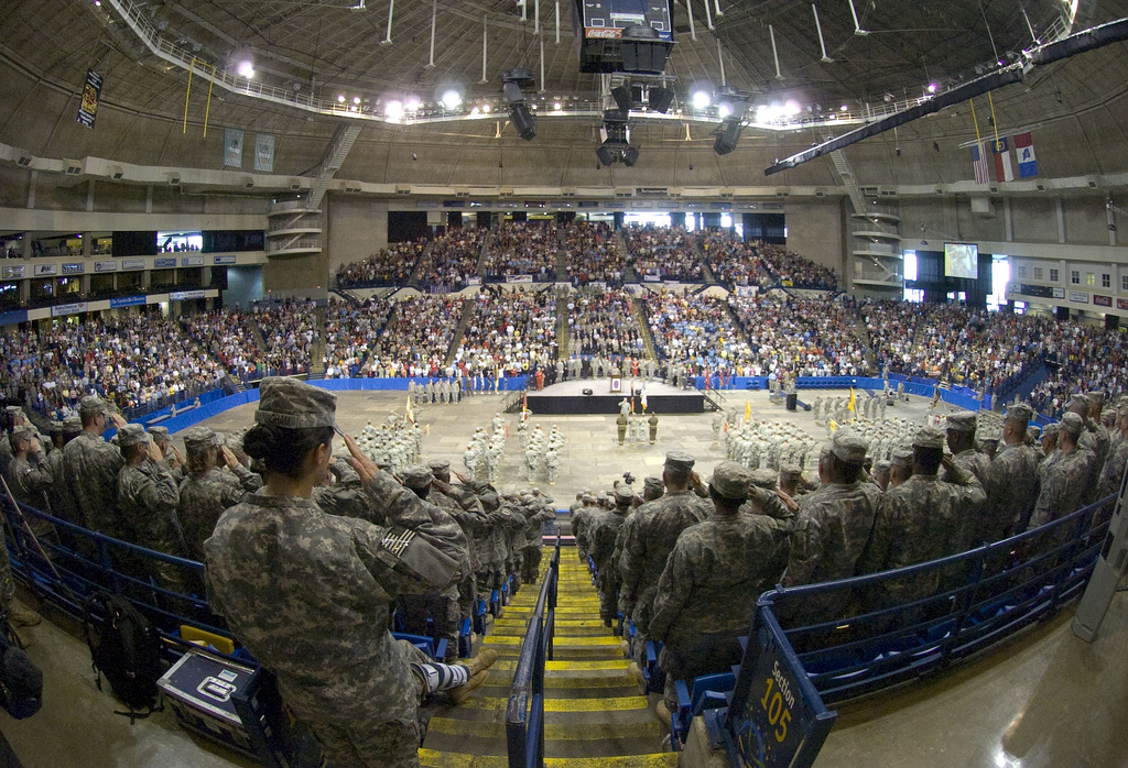 Soldiers and Army families from the 30th Heavy Brigade Combat Team, composed of National Guardsmen drawn from North Carolina, West Virginia, and Colorado, participate in a departure ceremony marking the beginning of the HBCT's second deployment in support of Operation Iraqi Freedom, April 14, 2009, at the Crown Coliseum in Fayetteville, N.C. During the ceremony, Army Secretary Pete Geren recognized the contributions and sacrifices of family members and encouraged community members to continue their support throughout the upcoming deployment.